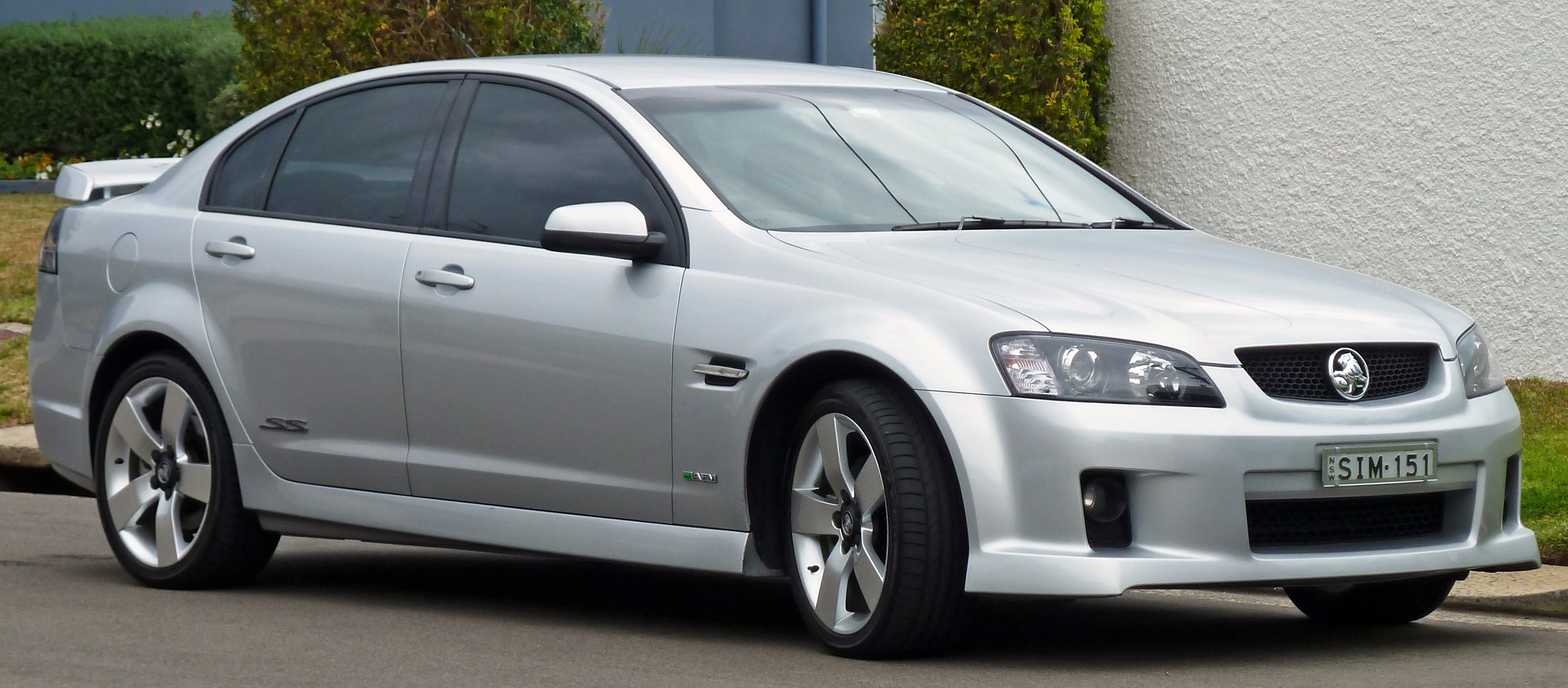 2009–2010 Holden Commodore (VE) SS V sedan. Photographed in Cronulla, New South Wales, Australia.